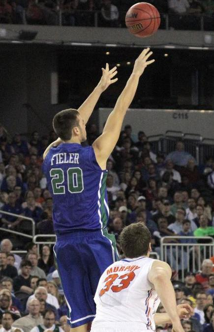 GOOD! JUMPER by Chase Fieler